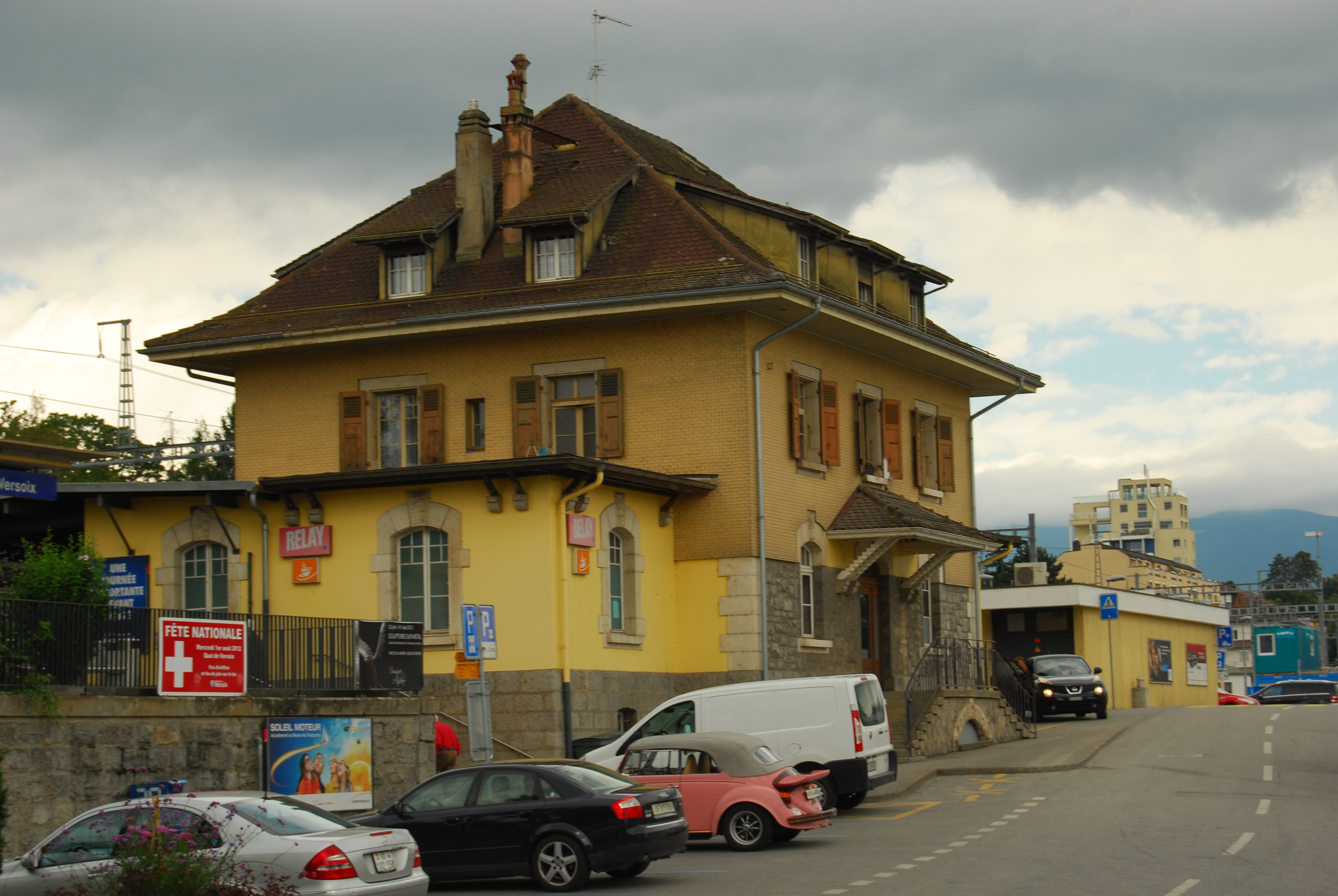 Trainstation of Versoix, Versoix, canton of Geneva, Switzerland